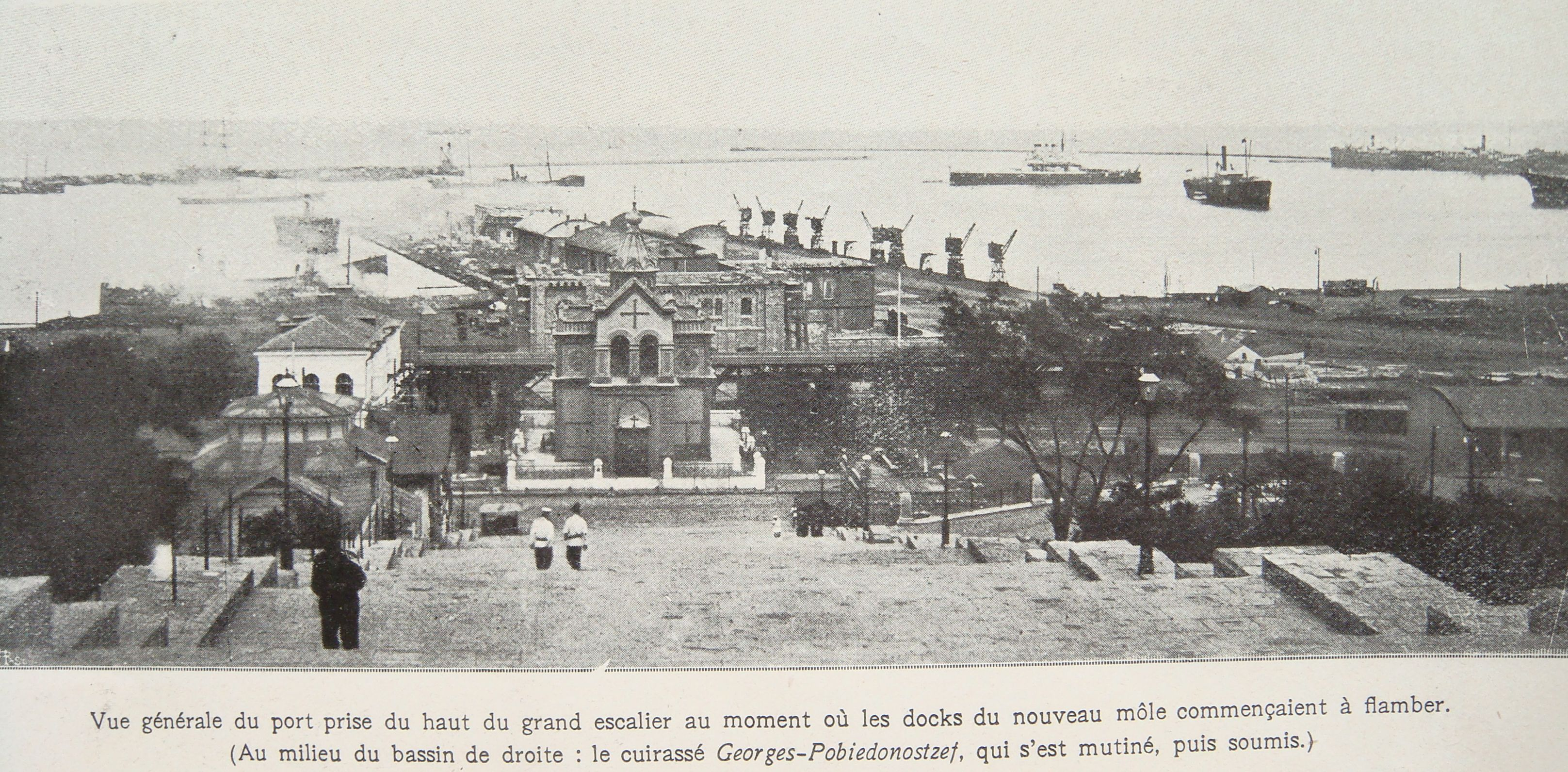 Potemkin mutiny. View of Odessa port. Battleship Georgy Pobedonosets in the right part of the picture at the inner road